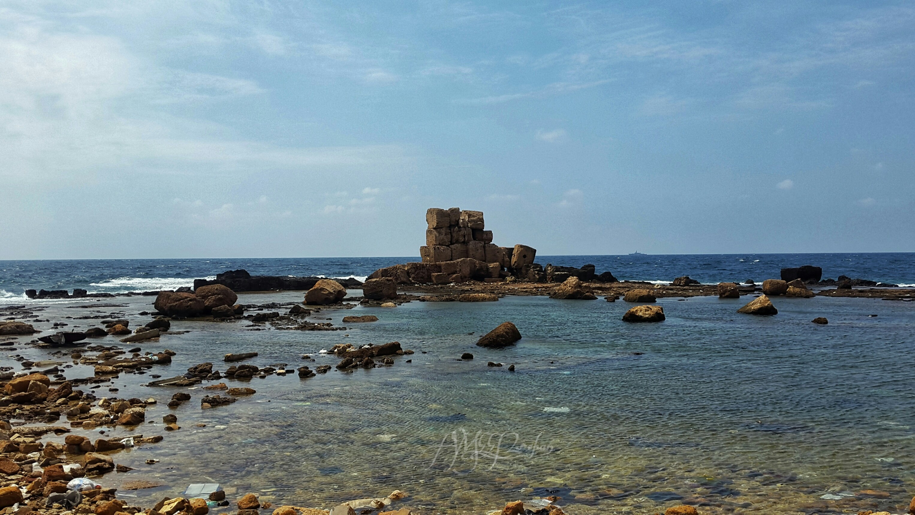 Tartous, Arwad island, this is what still from old Great wall